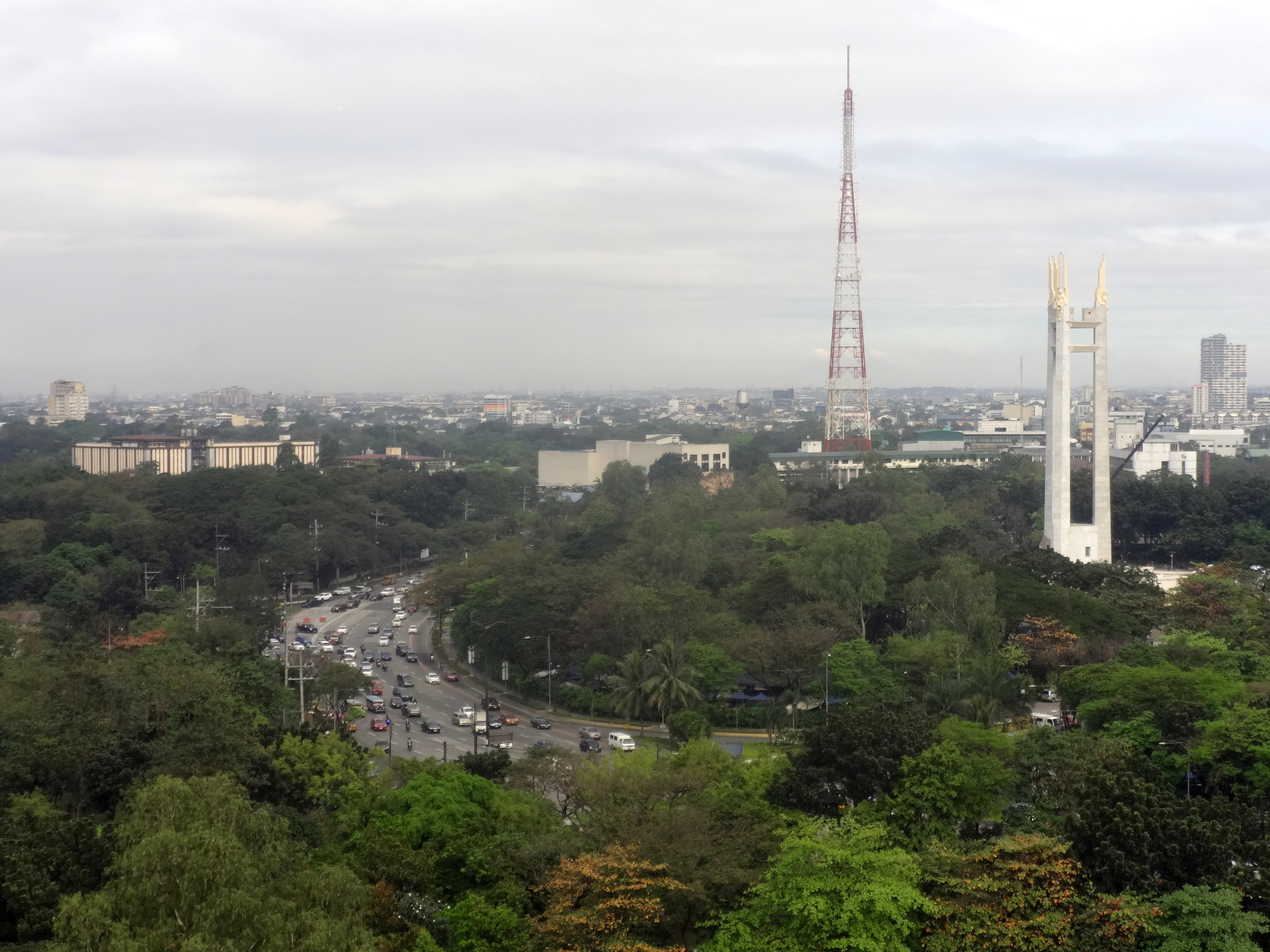 Elliptical Road, monument tower of Quezon Circle and PTV-4 transmitter in Diliman, Quezon City. Taken from Quezon City Hall